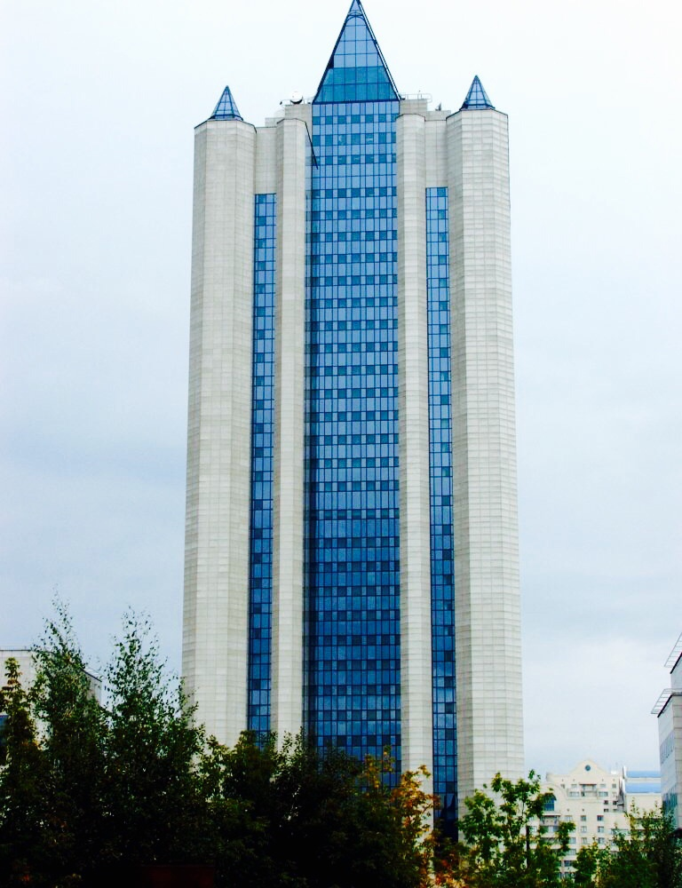 Gazprom Headquarters in Moscow